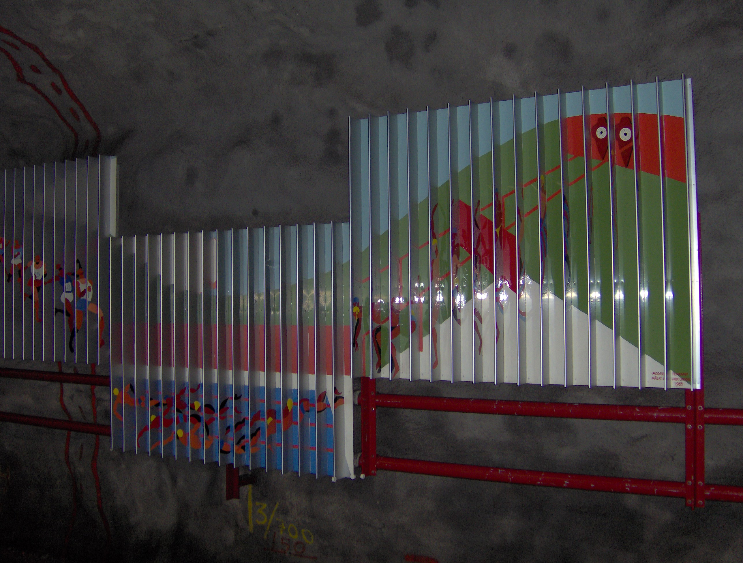 Artwork at the Stockholm metro station Stadshagen.